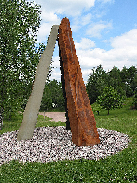 Roll of Honour sculpture, Parkend, Gloucestershire, England. Sculpted by Graham Tyler and John Wakefield and erected in 2005, the 3 elements depict stone, iron and coal. Stone is depicted by a slab of Forest of Dean bedrock, iron by pre-rusted fabricated steel and coal by carved and blackened Dean oak. Stainless steel discs are set in to the inside faces to represent the tokens or tags carried by miners of more recent times to show who is underground at a given time. The sculpture is to honour those who lost their lives in the coal and iron mines and the quarries of the Forest of Dean.